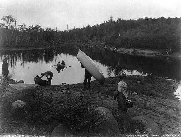 Raquette River. At Sweeney Carry [N.Y.] Photo of 6 men portaging 3 canoes.